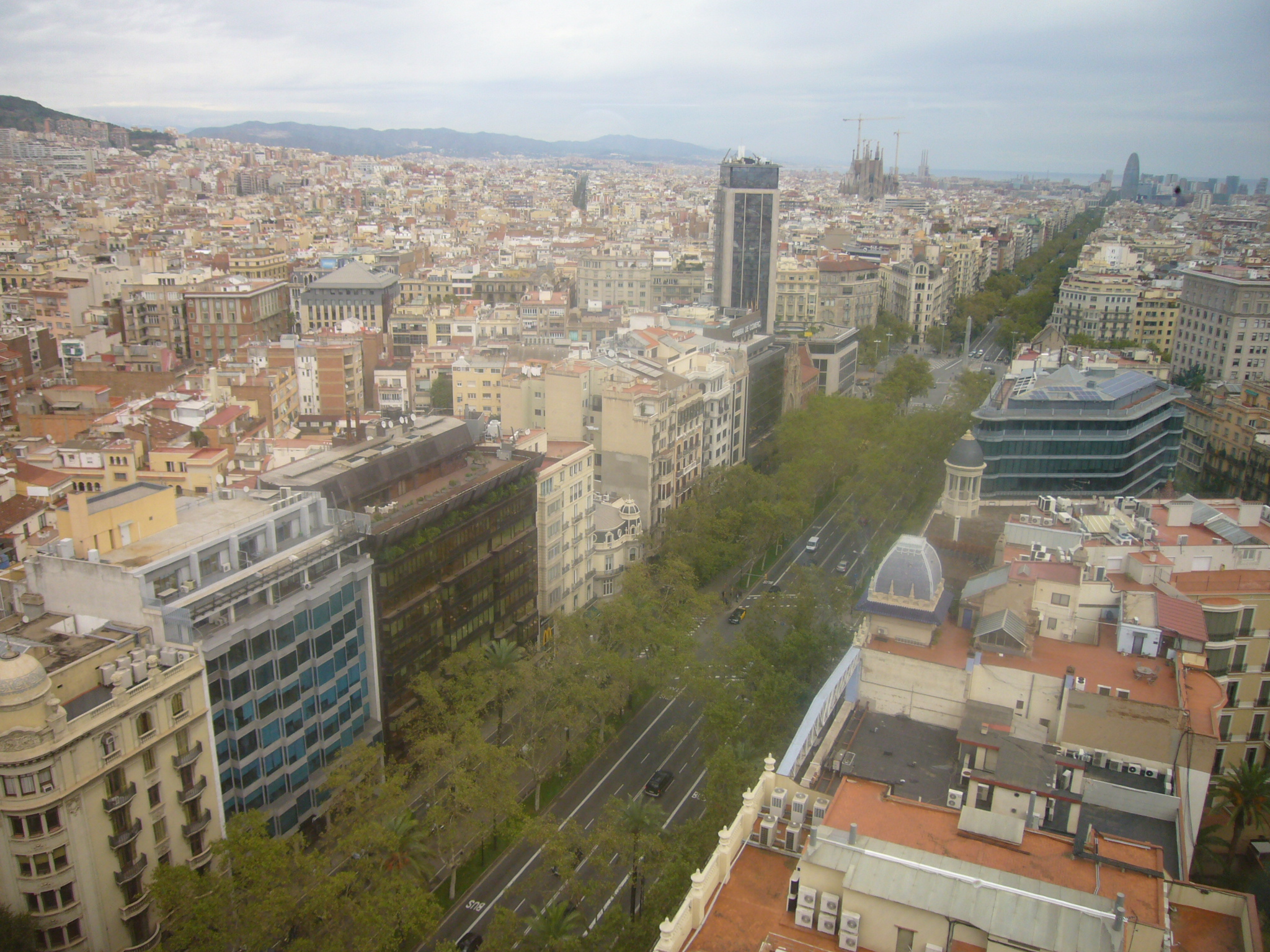 L'Eixample seen from the upper floor of the Banc Sabadell building, Barcelona. (Barcelona Open House days)